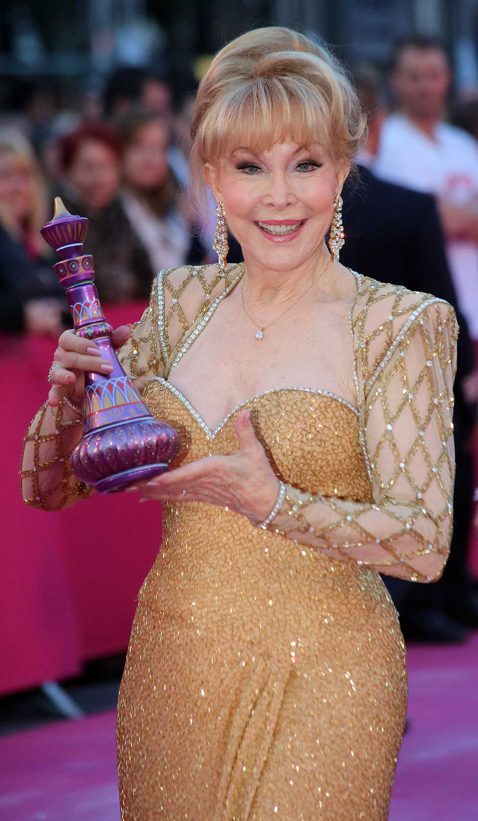 Barbara Eden on the 'magenta carpet' at Life Ball 2013 at the square in front of the city hall of Vienna, Vienna, Austria.